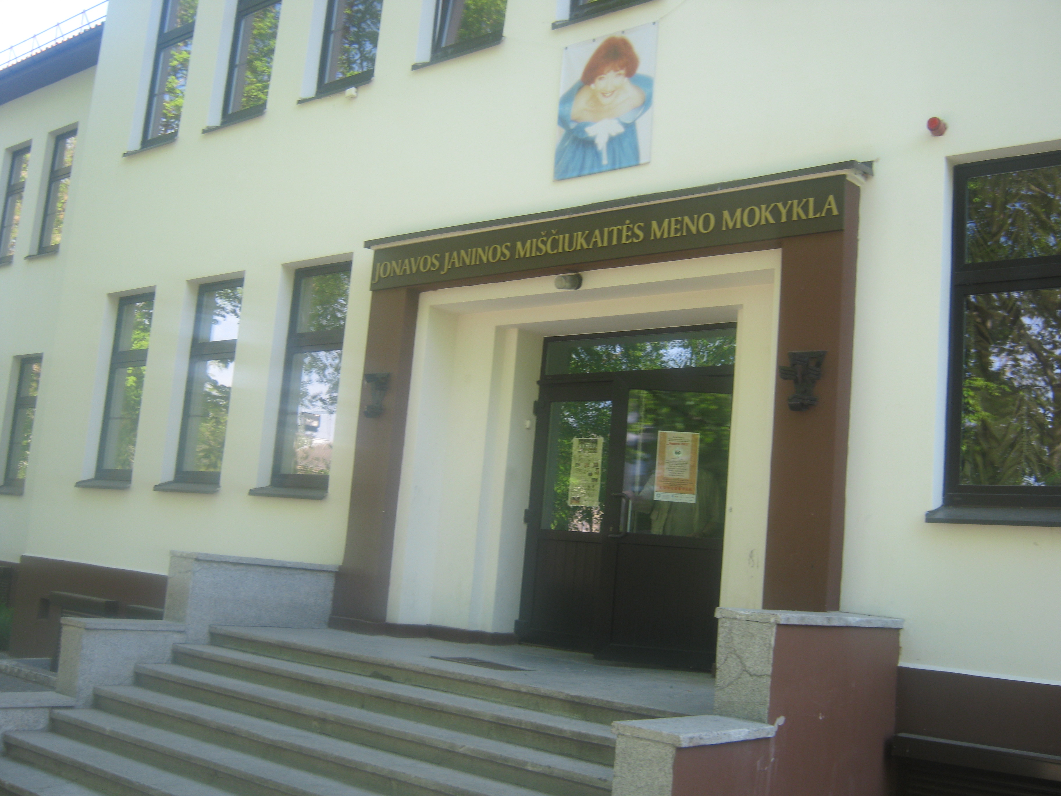 Janina Miščiukaitėart school of Jonava entering